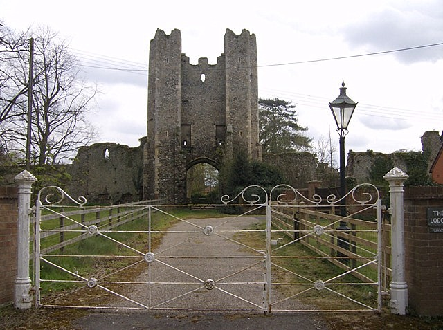 Entrance to Mettingham Castle This is the main gateway to the castle from the north, and it and the adjacent wall are the only original bits of the castle remaining. It was built in 1342. It is close to the gridline but Magic confirms that the whole of this gateway is in TM3588.